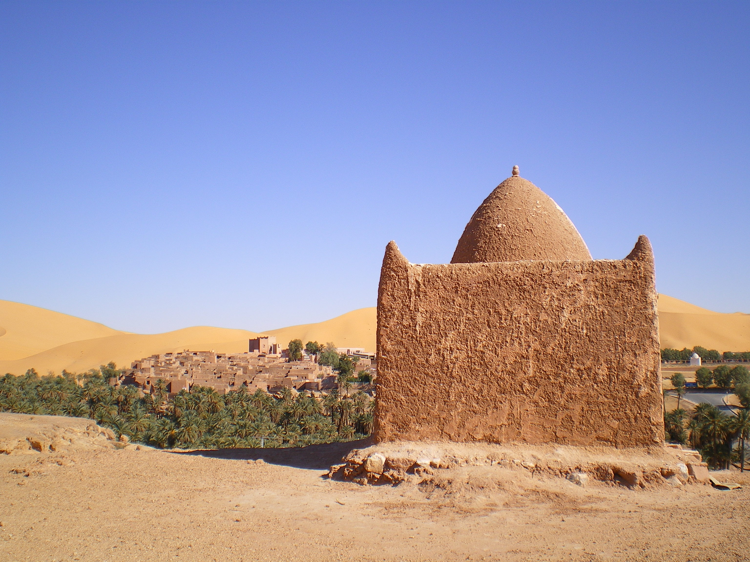 Photo of Qibba, Taghit Oasis (Béchar, Algerie).